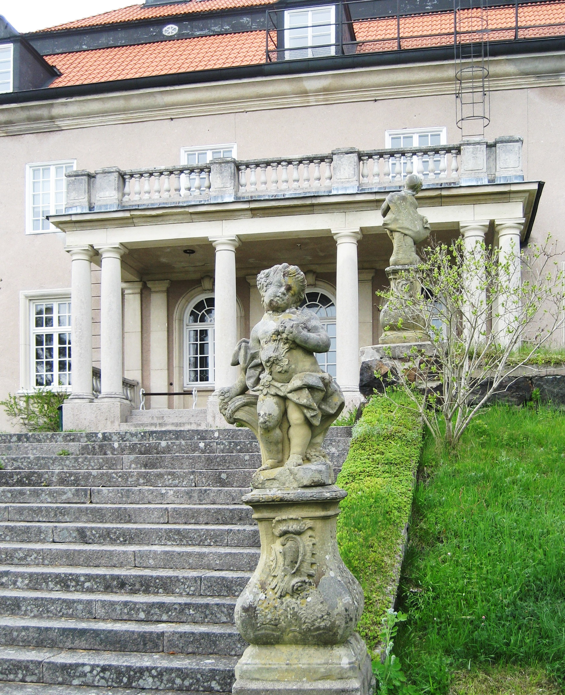 Stensunds slott, Trosa kommun, Södermanland, Sweden. Limestone statue.